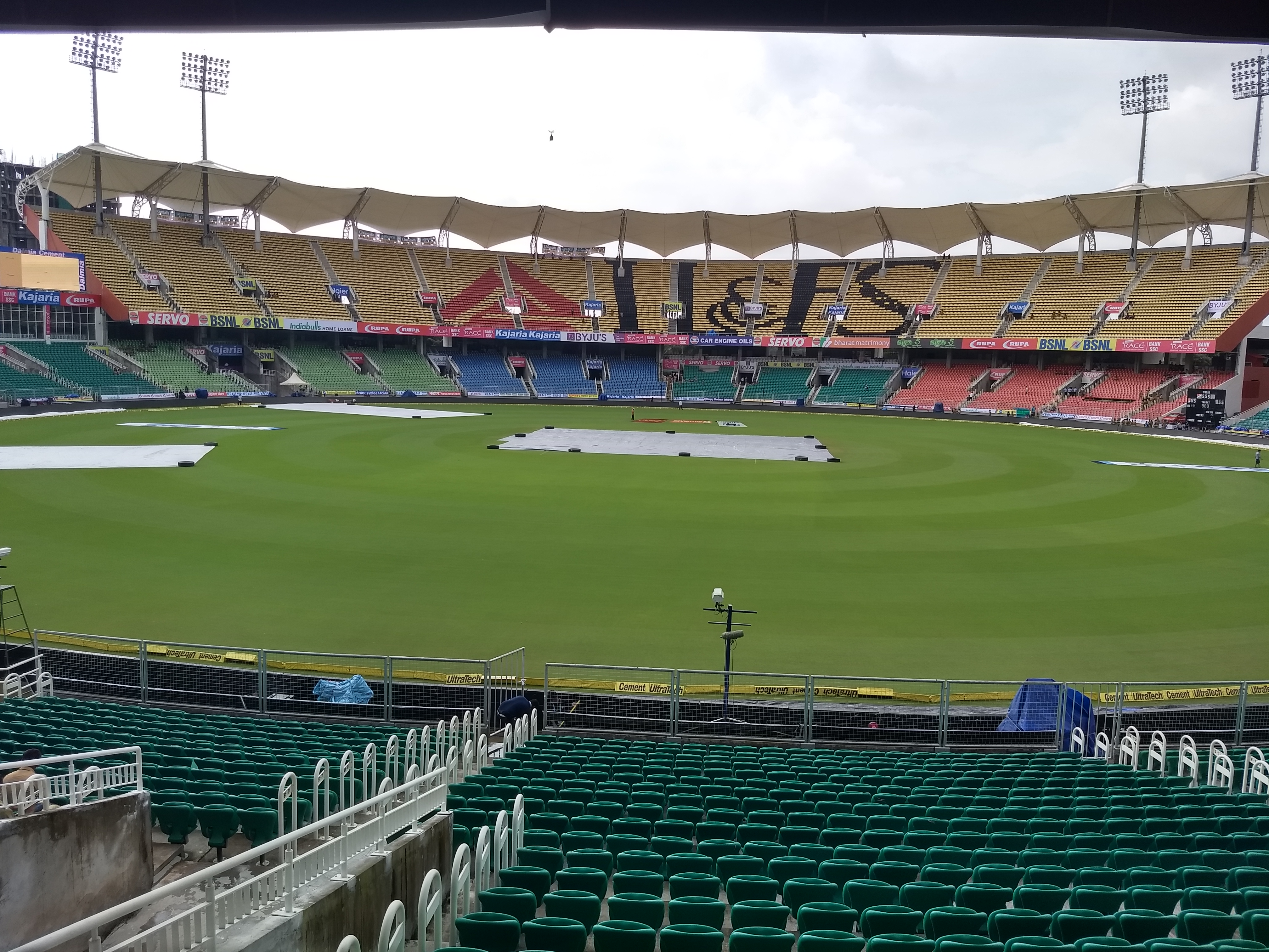 Greenfield Stadium or Karyavattam Sports hub is an international Stadium located in Trivandrum, Kerala, India. The stadium is mainly used for Cricket matches. The photograph was taken before the international 20-20 match between India and Newzealand on 7 November 2017. My friend Vishnu from Polayathodu, Kollam helped me to take this photo.